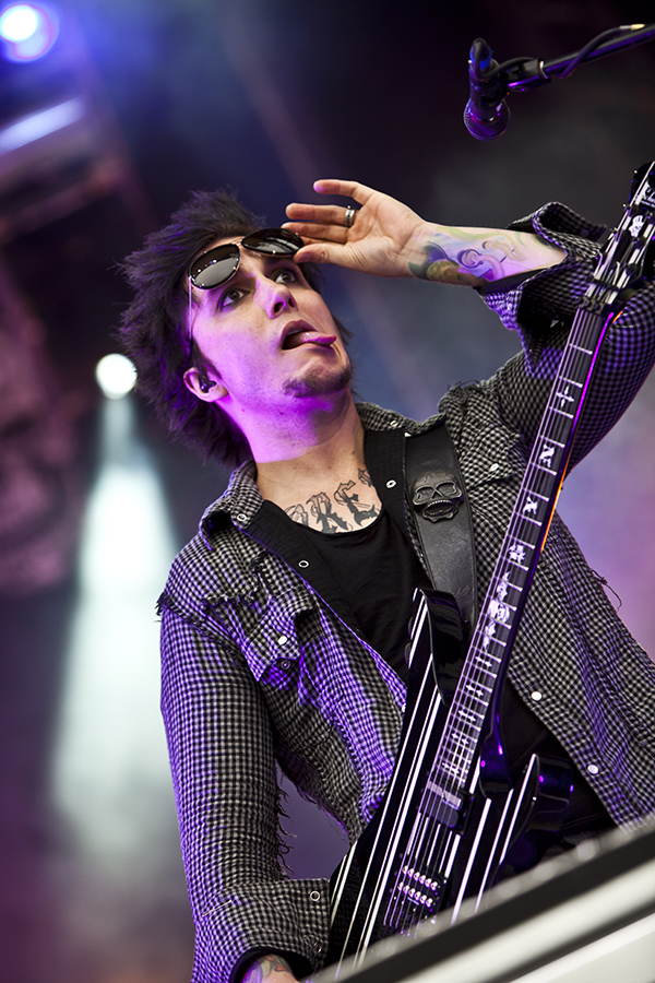 Synyster Gates of Avenged Sevenfold, live in Bergen, Norway - 2011